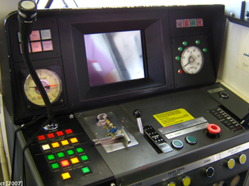 The driver's cab of an SMRT Kawasaki Heavy Industries and Nippon Sharyo C751B train. (Current Image downsized on request. Pls contact me if you want the full resolution image)